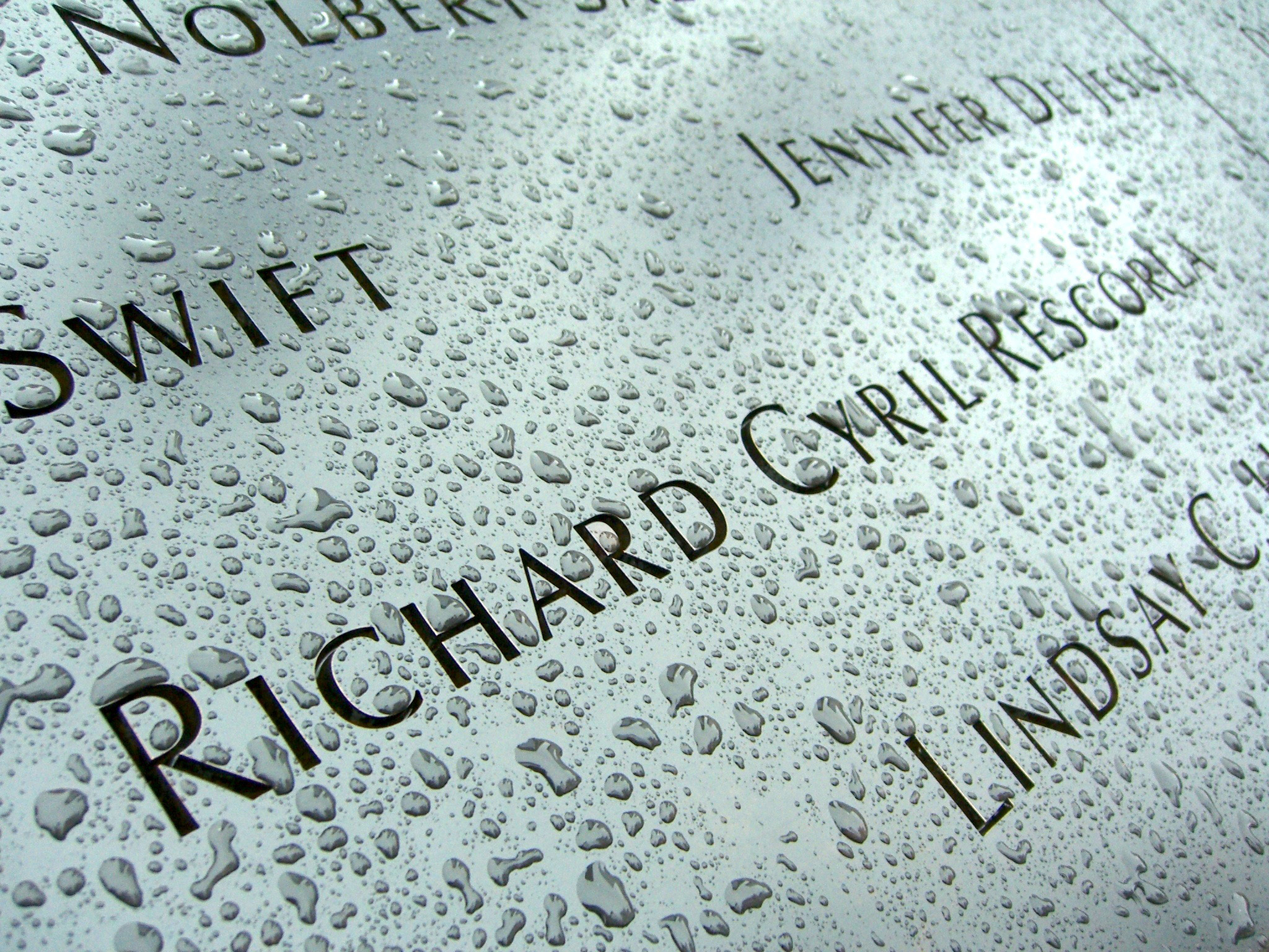 The name of Rick Rescorla is among those inscribed on bronze panel S-46 of the South Pool of the National September 11 Memorial in Manhattan, as seen on December 6, 2011. This photo was created by Luigi Novi. If you have any questions, you can contact me by sending me an email or User talk:Nightscream